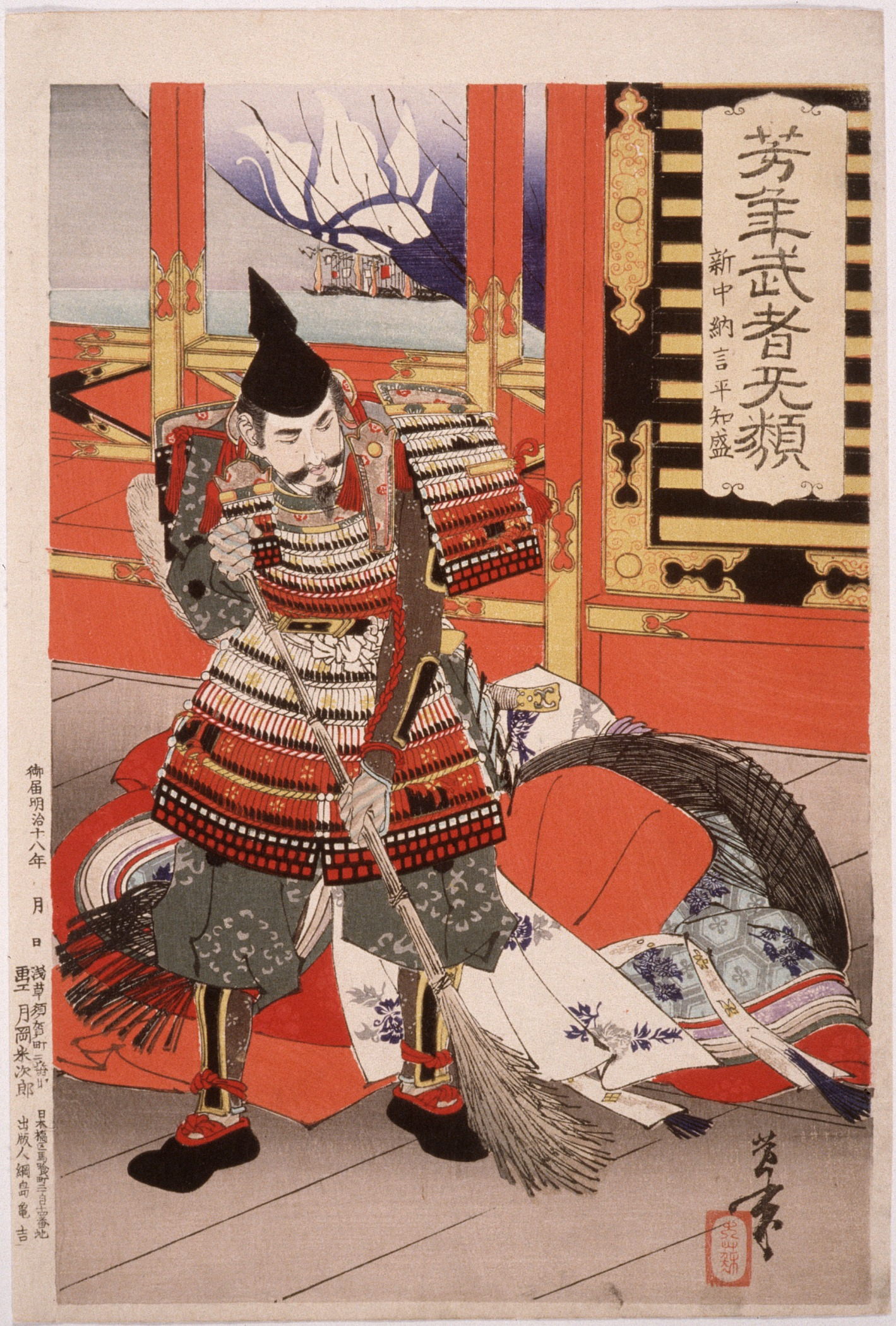 Japan, 1886, 1st month Series: Yoshitoshi's Warriors Trembling with Courage Prints; woodcuts Color woodblock print Herbert R. Cole Collection (M.84.31.97) Japanese Art 壇ノ浦の戦いにおいて、最早これまでと自害を決した平知盛は、安徳天皇の乗る御座船に飛び移り、見苦しい物はすべて海に捨てよと命じ、自ら船の中を掃除したのち自害した、という『平家物語』の一場面を描いたもの。 In May 1185, Taira no Tomomori killed himself in the Battle of Dan no ura, thereby marking an end to the Taira clan. Before suicide, Tomomori crossed over to the women's vessel, of which TAIRA no Tokuko(Emperor Antoku) and TAIRA no Tokiko were aboard, and said 'The enemy soldiers are coming soon. Get rid of anything unsightly and purify yourselves' and he cleaned the ship. They drowned themselves. From The Tale of the Heike